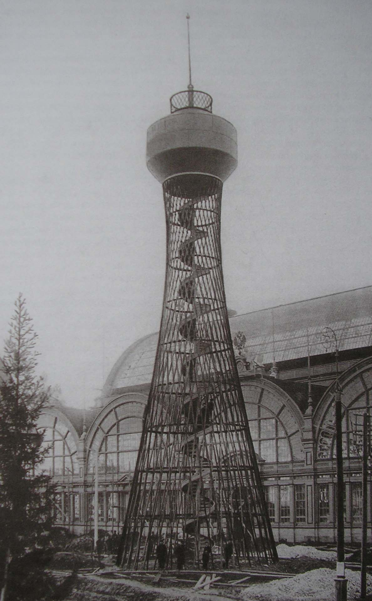 The First in the World Hyperboloid Tower by great Russian engineer and scientist Vladimir Grigorievich Shukhov